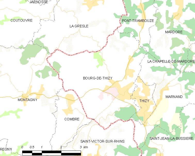 Map of French municipality